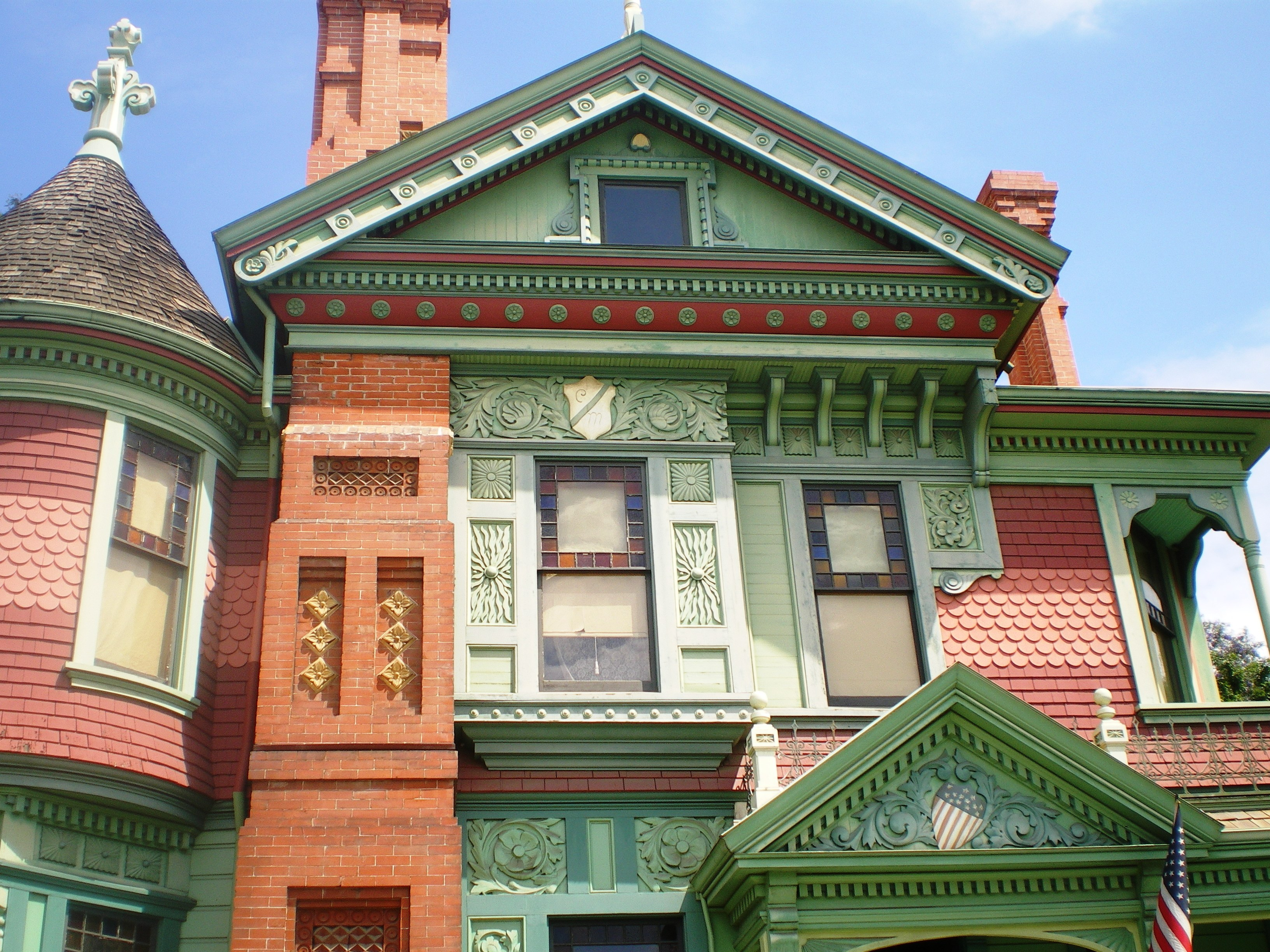 Photograph of front facade of the Hale House — at Heritage Square Museum, north-central Los Angeles, California. The Victorian Queen Anne style house was located in the nearby Highland Park district for 85 years (1885 - 1970). The Hale House is a Los Angeles Historic-Cultural Monument, and on the National Register of Historic Places. Located since 1970 at the open air Heritage Square Museum (with 7 other historic buildings), in the Arroyo Seco (3800 Homer Street), Los Angeles.